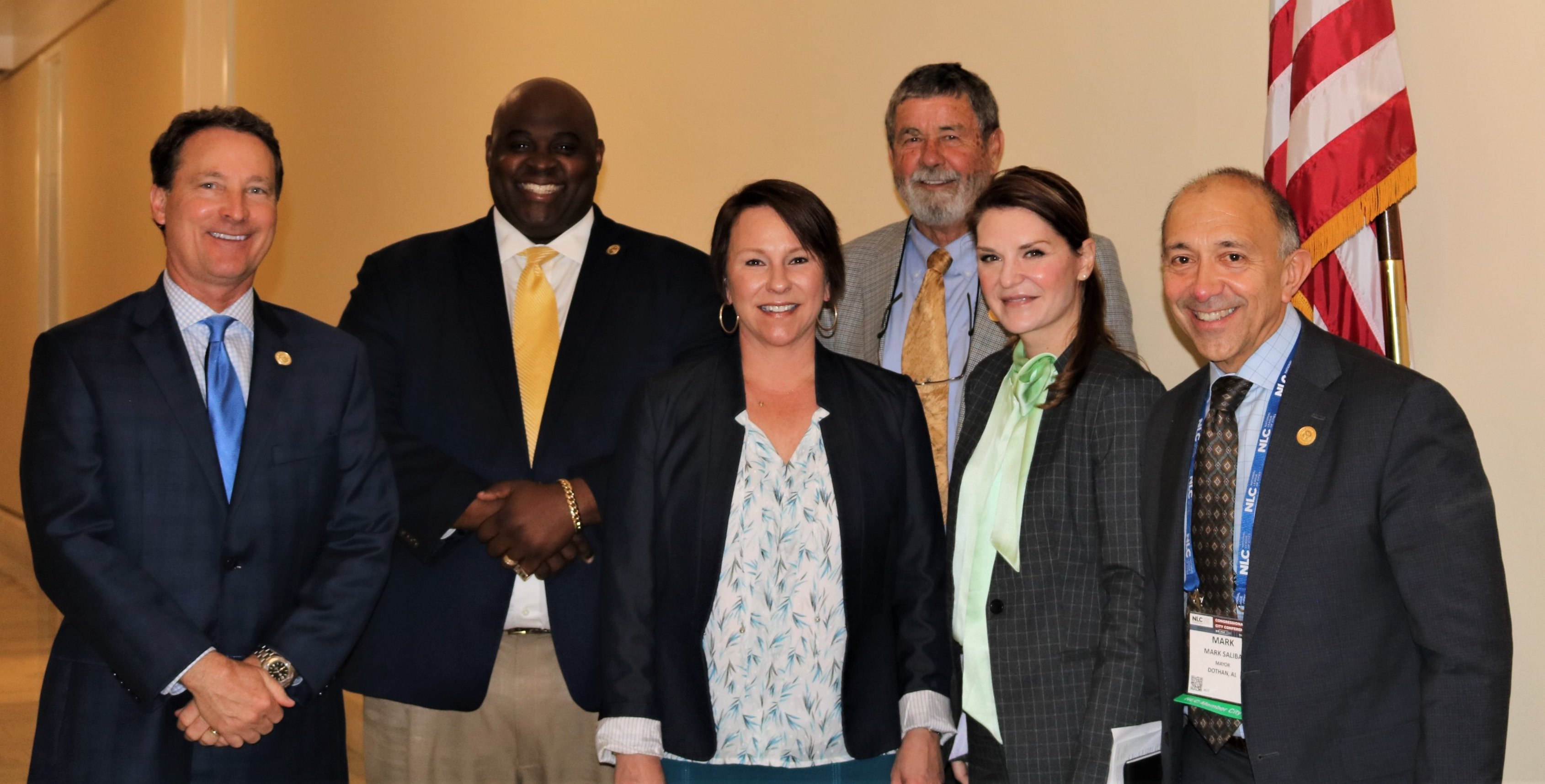 Wrapping up this busy day w/ great conversation from Dothan city officials. Thank you for dropping by & filling me in on city issues in the Wiregrass area!